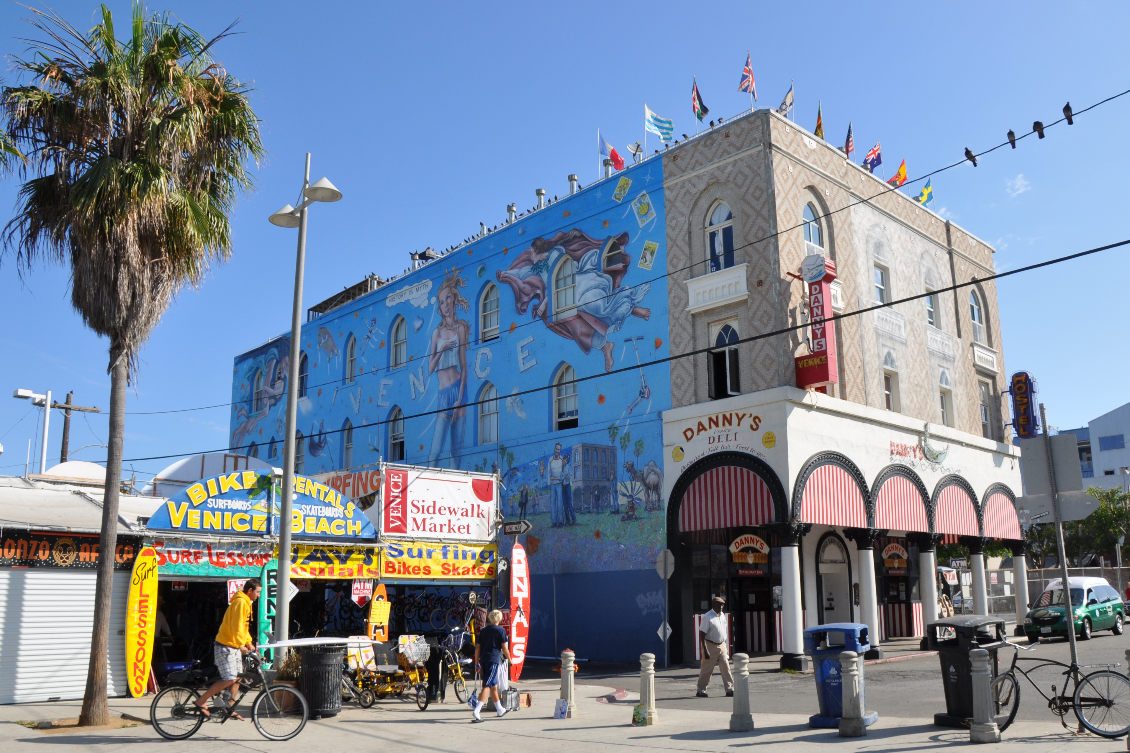 Reproduction of the Palazzo Ducal Palace (Palazzo Ducale) of Venice, Italy (Venezia) - in Venice Beach, Los Angeles, Southern California. Built circa 1905 by Abbott Kinney as the St. Marks Hotel, on Windward Boulevard at the Boardwalk. The former southwestern-left 1/2 was demolished circa 1960s).